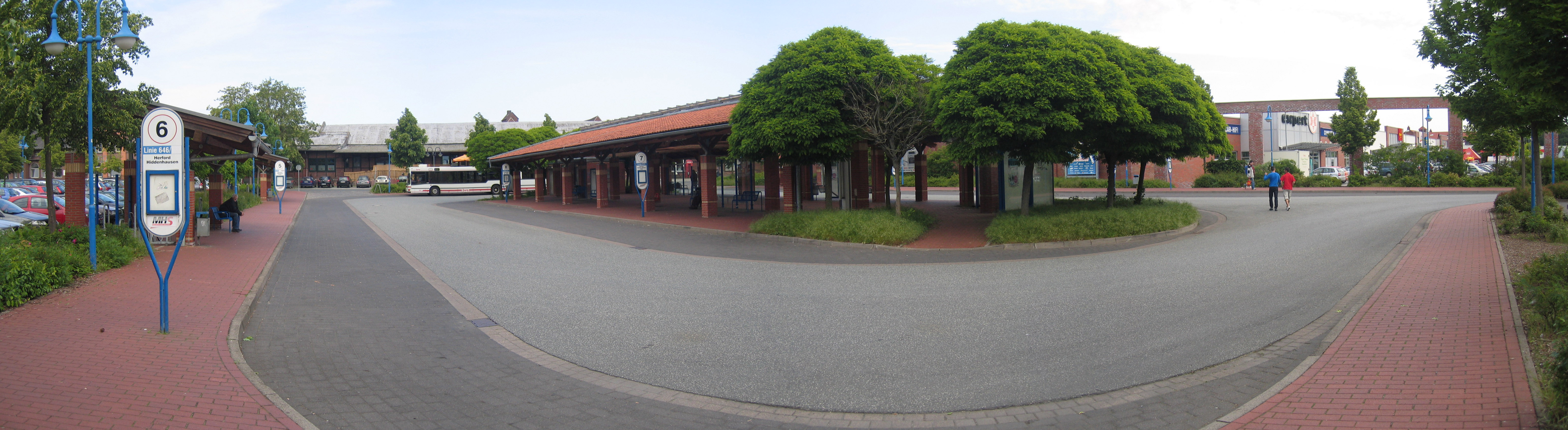 Bus station in Bünde, District of Herford, North Rhine-Westphalia, Germany.